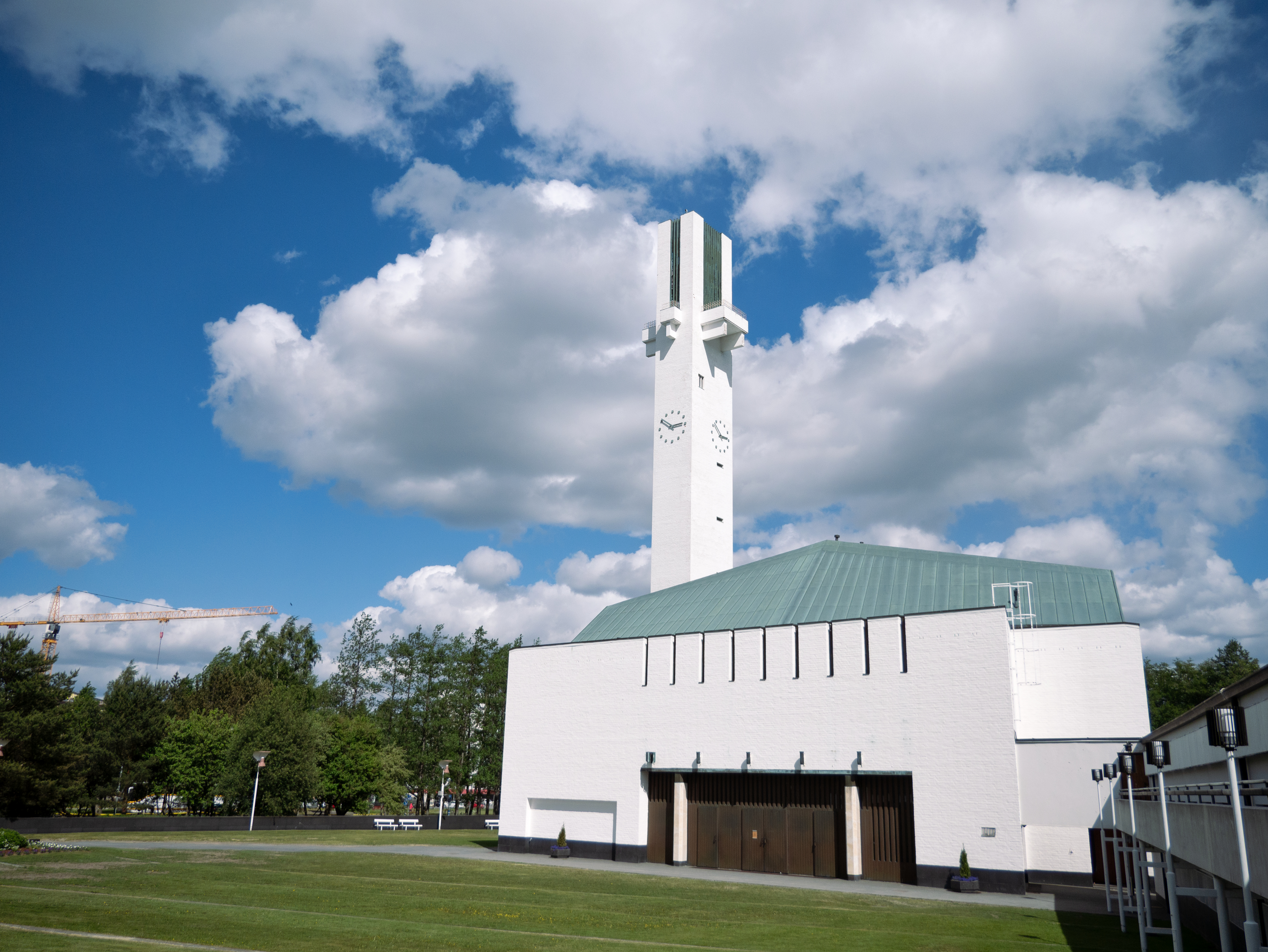 Lakeuden risti church in Seinäjoki.